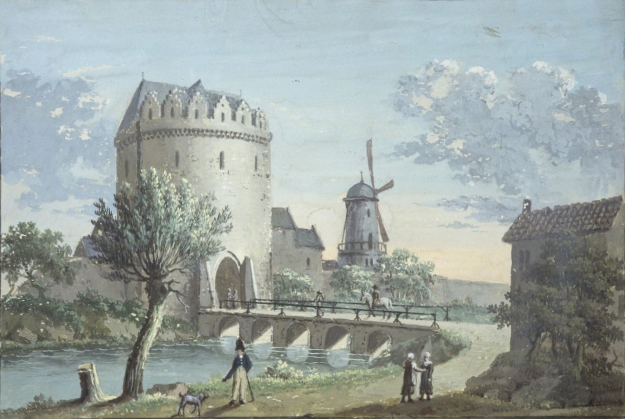 Aquarel of Anderlecht city gate in Brussels, by L. Spaak (Museum of the City of Brussels, inv. L 1900-4 H438)